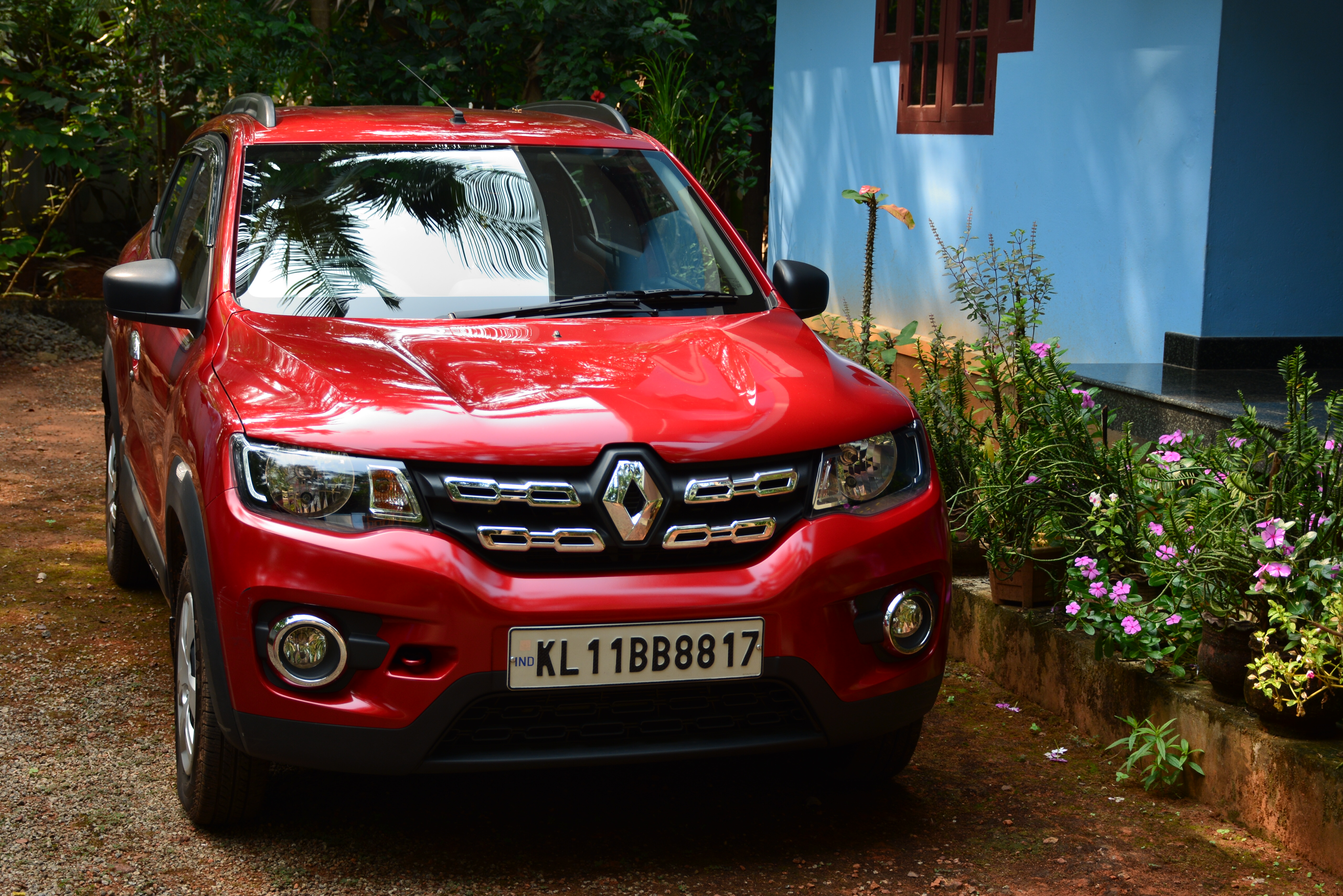 Fiery Red Renault KWID RXT(O)